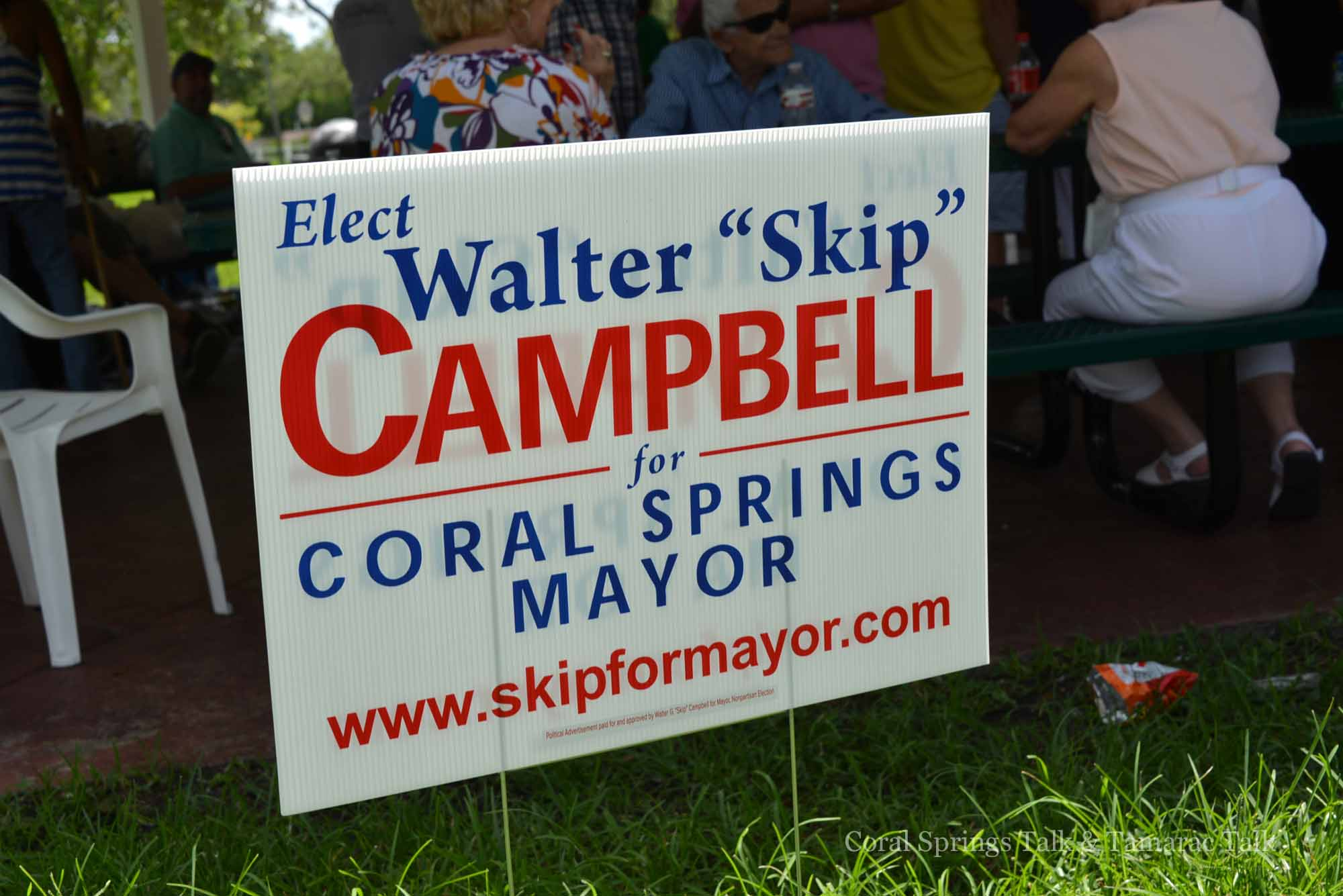 Hosted by the Coral Springs / Parkland Democratic Club. The picnic was held on Aug 31 at Betty Stradling Park on Wiles Road.